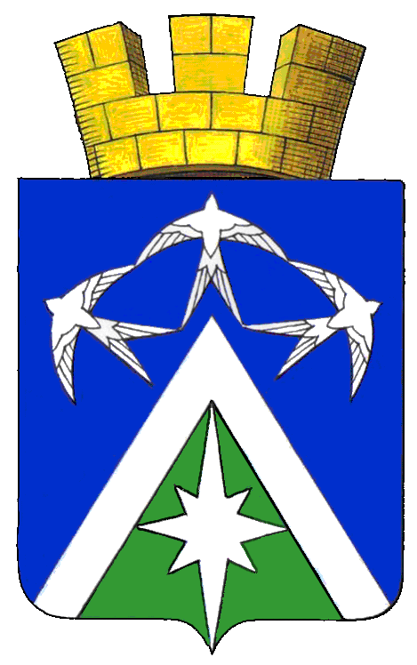 Lukhovitsy-town coat of arms